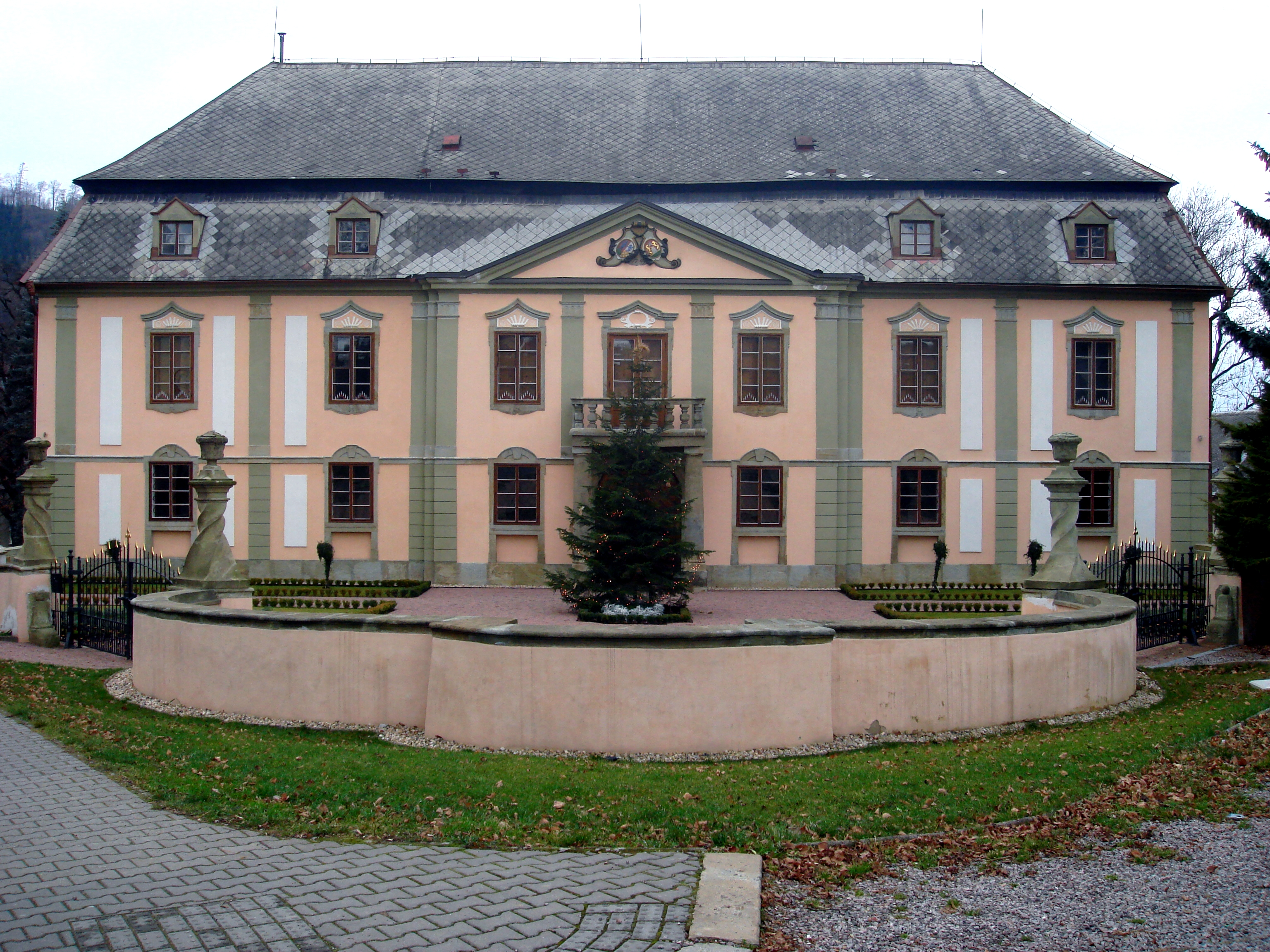 Chateau in Potštejn (Hradec Králové Region, Czechia).